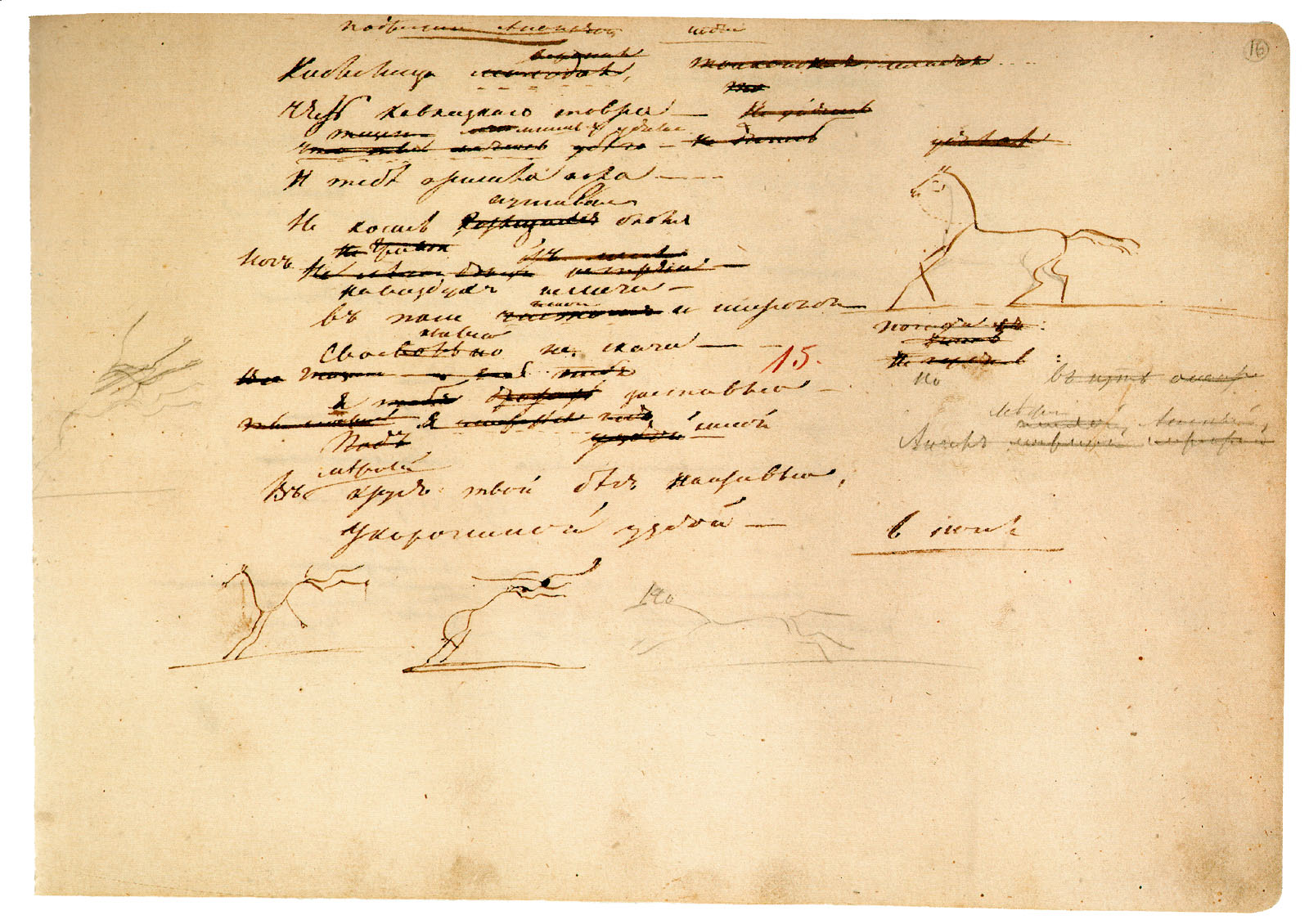 Pushkin_Anacreon_Kobylitsa_molodaya_(The_Horse).